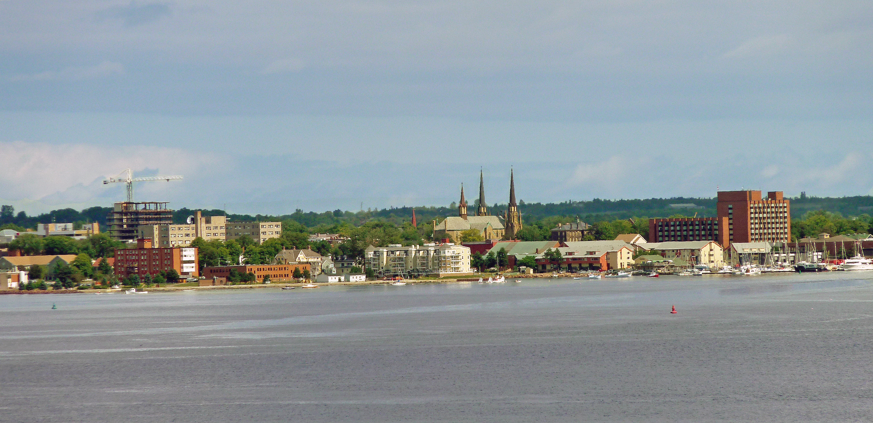 The skyline of Charlottetown, Prince Edward Island seen from Fort Amherst.